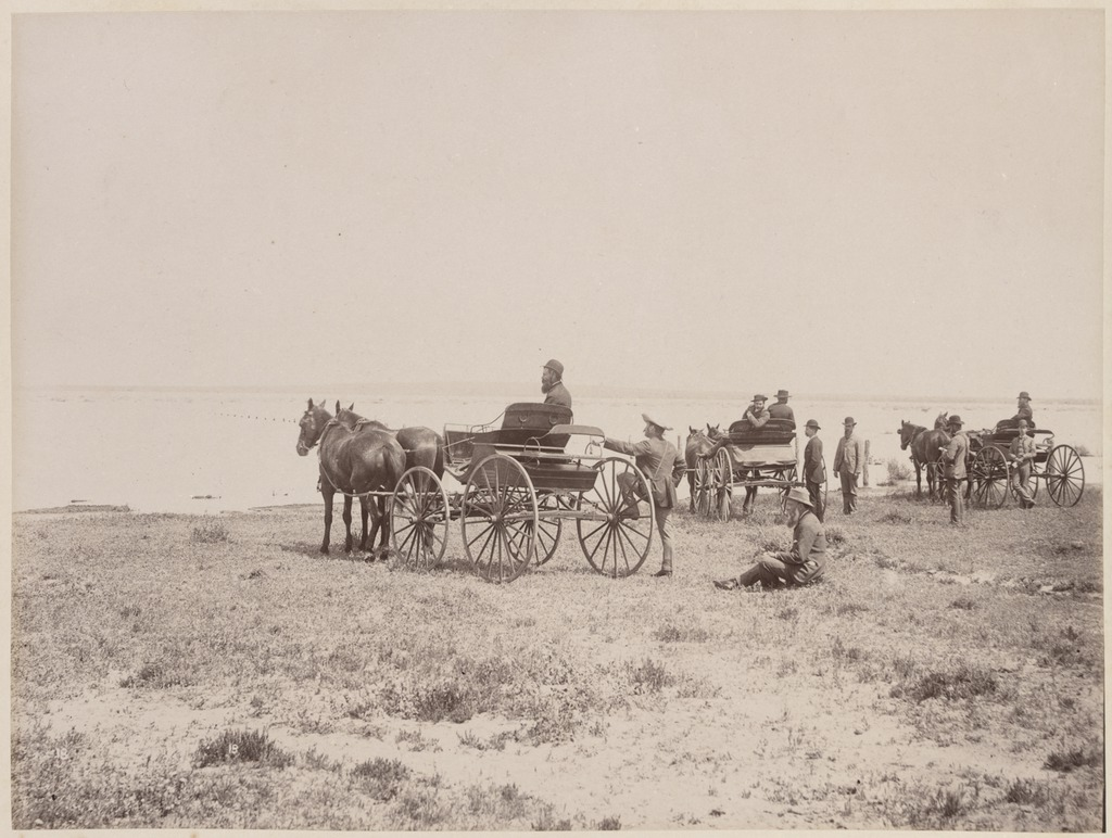 Bayliss, Charles, 1850-1897 Title devised by cataloguer based on inscription beneath photograph.; In: Views of scenery on the Darling & Lower Murray during the flood of 1886.; Inscriptions: "Lake Woytchugga, near Wilcannia, Darling River"--On label beneath photograph.; "C. Bayliss, photo, Sydney"--Photographer's blind stamp lower left corner.; Also available in electronic version via the Internet at: Persistent URL .au/nla.pic-vn3968273